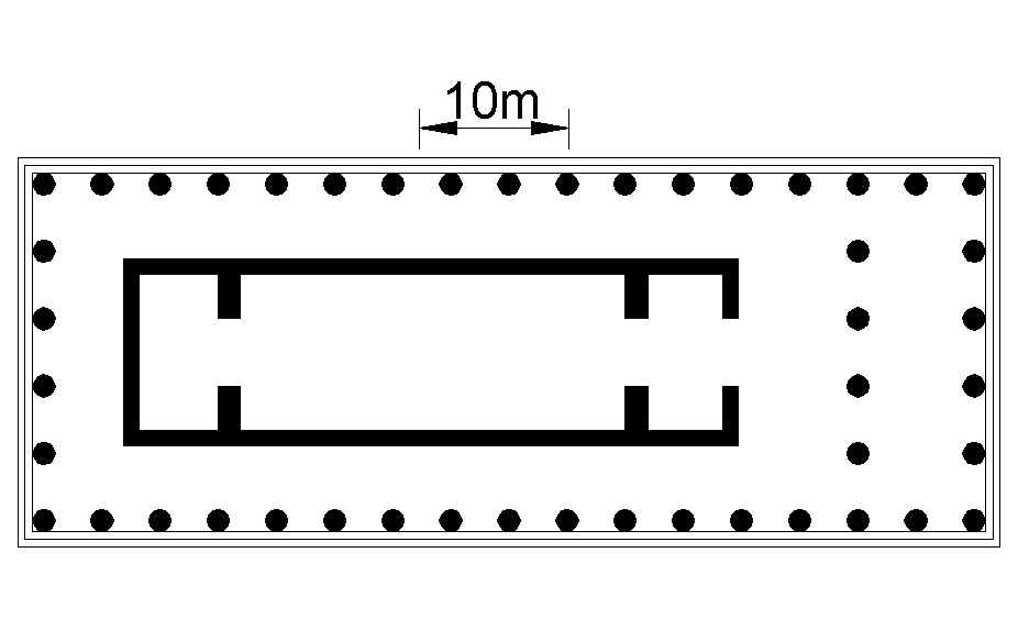 Selinunte. Plan of temple C.